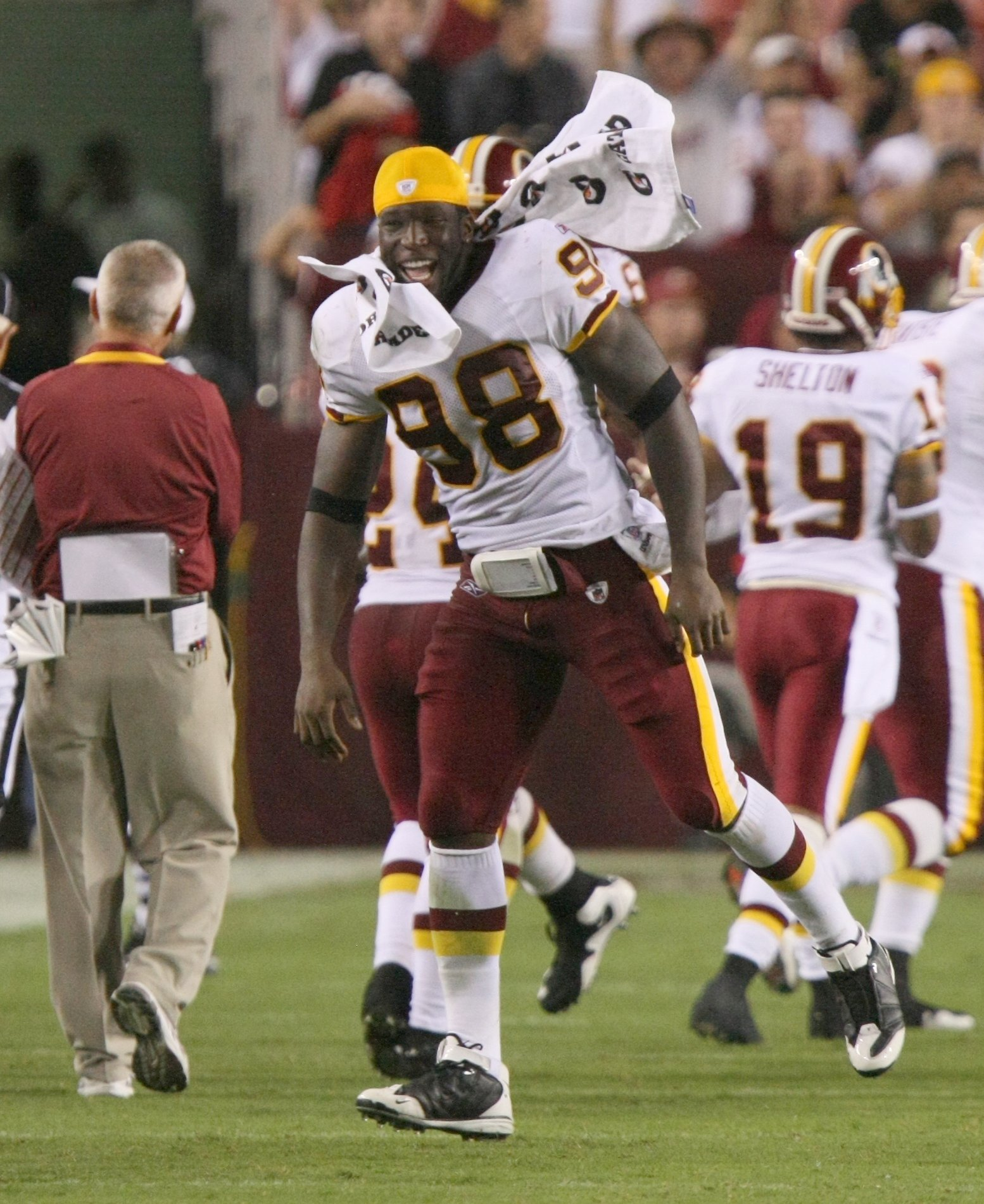 Washington Redskins Brian Orakpo (98) is exuberant after a big play during the New England Patriots at Washington Redskins preason game on August 28, 2009